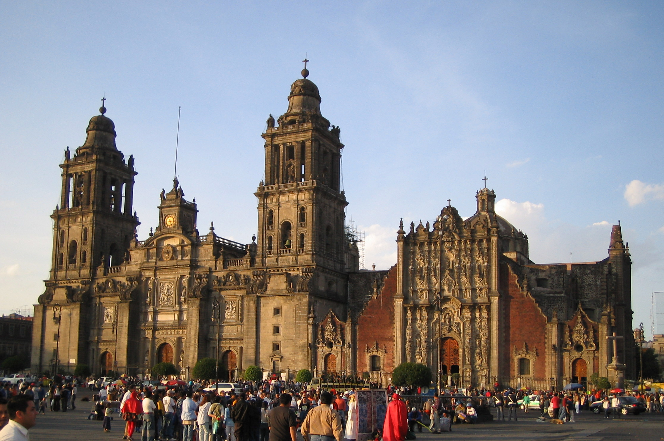 Zócalo cathedral